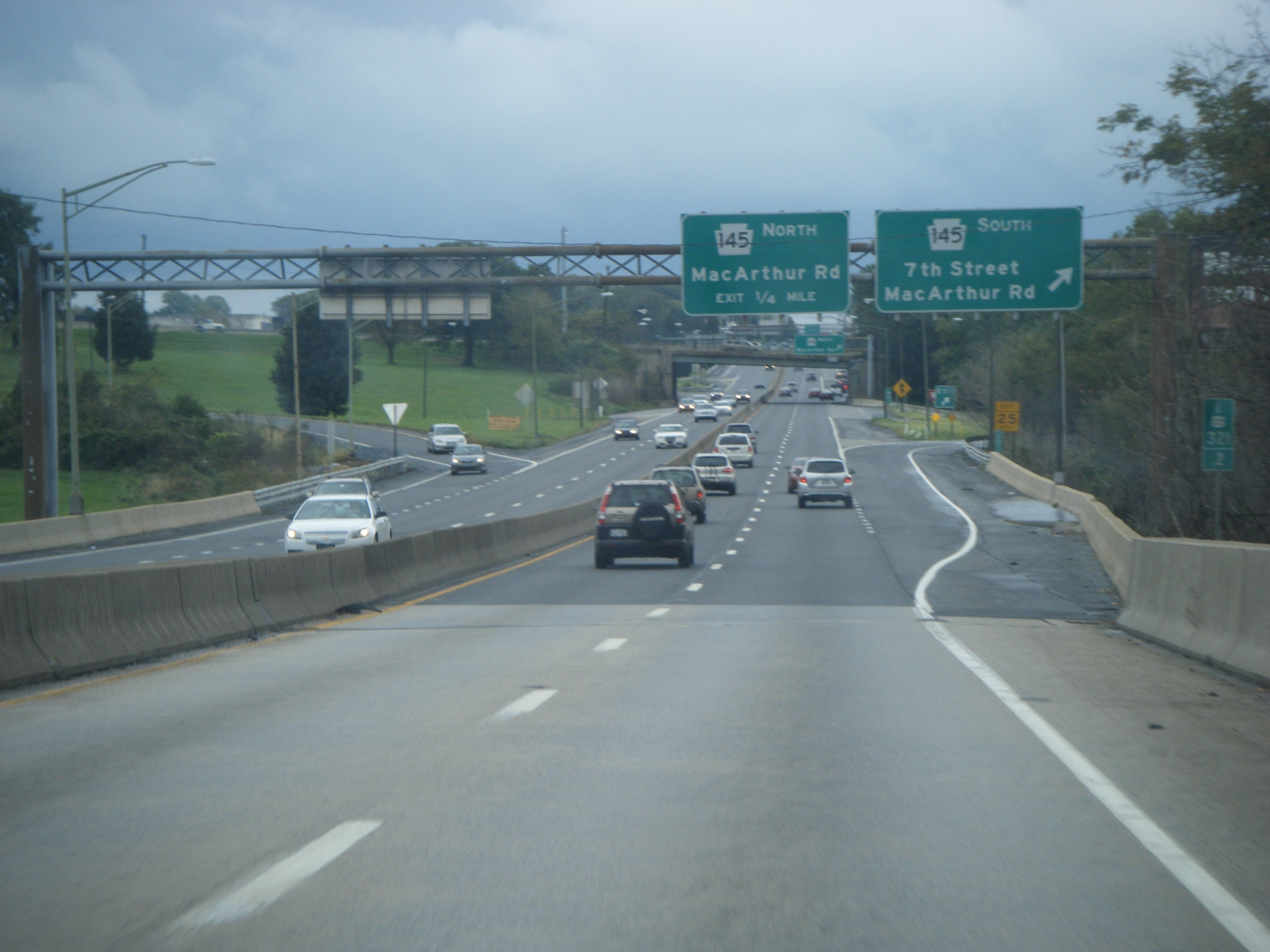 Eastbound U.S. Route 22 (Lehigh Valley Thruway) at the exit for southbound Pennsylvania Route 145 (MacArthur Road) in Whitehall Township, Pennsylvania